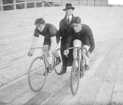 Portrait of cyclists Francesco Verri and Reggie McNamara sitting on their bicycles on a wooden platform for the Bay Bicycle Race in Chicago, Illinois. An unidentified man wearing a dark coat and hat is standing between the bicycles. He appears to be holding them steady by their seats.